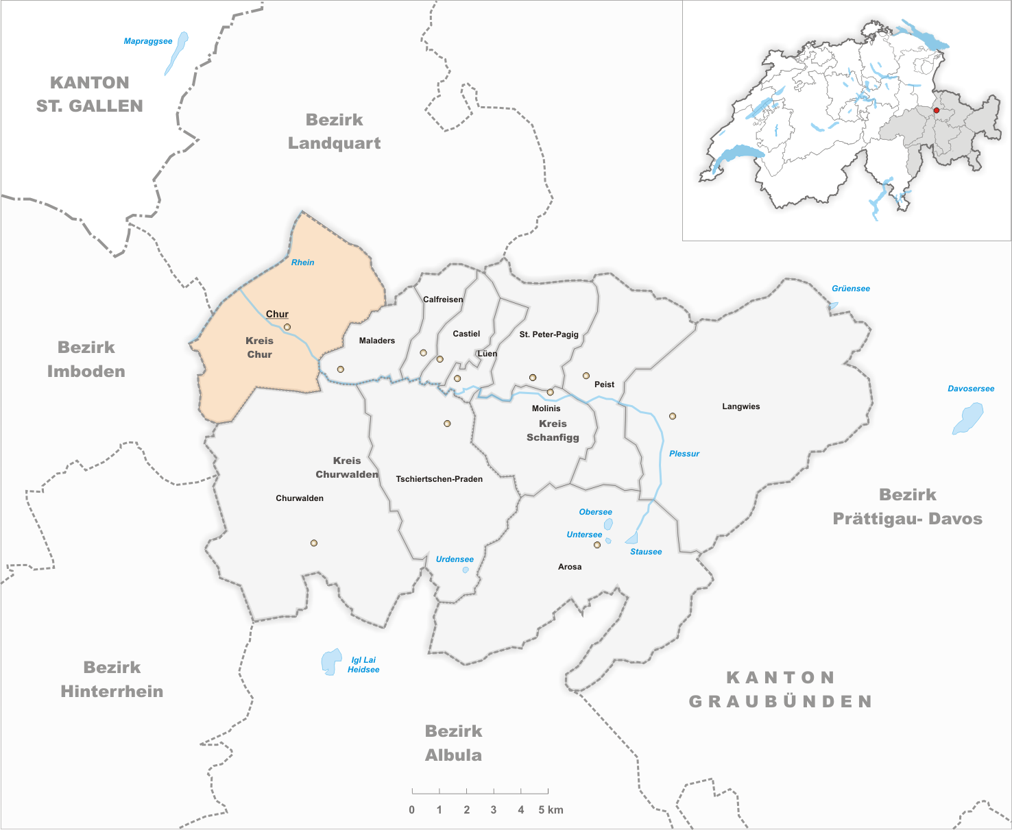 Municipality Chur